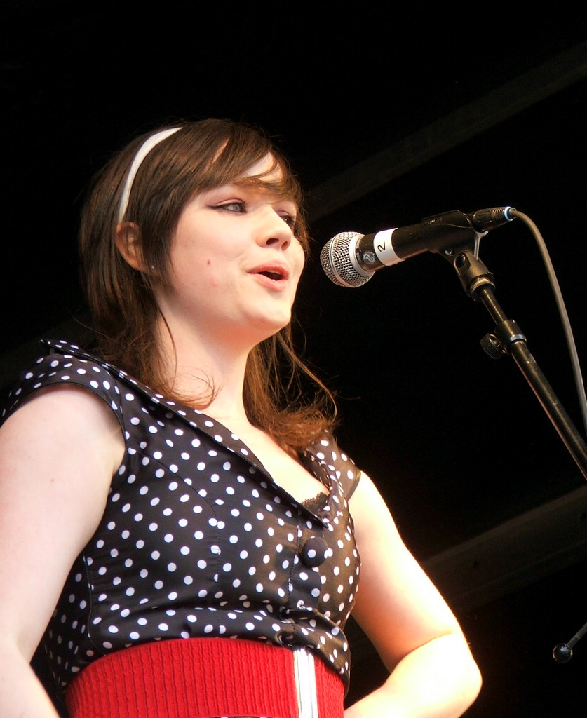 Rosay, vocalist of the british groups The Pipettes.